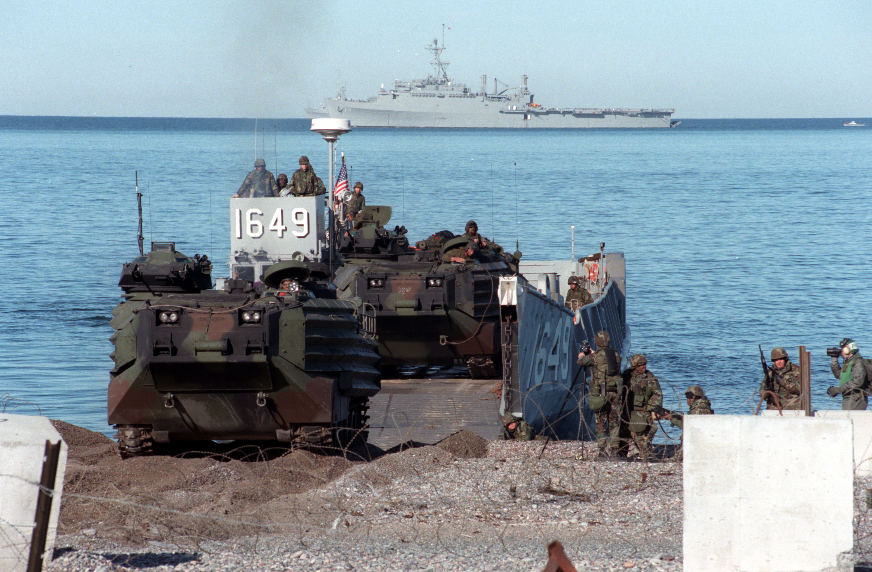 An amphibious assault vehicle (AAV) from the USS Nassau (LHA-4) advances onto "Green Beach" during a mock invasion in Stephenville, Newfoundland (Canada). The maritime combined operational training exercise Unified Spirit '98 includes forces from Canada, Denmark, the United Kingdom, France, the United States , and other NATO nations. The exercise provides effective, realistic training to improve the skills they might employ during a NATO led peacekeeping support operation. The U.S. amphibious transport dock ship USS Nashville (LPD-13) is visible in the background.